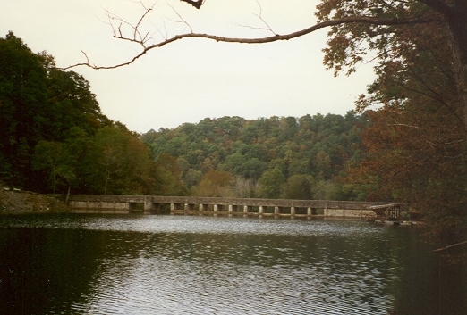 Standing Stone Lake at Standing Stone State Park taken by Ichabod on October 5, 1996.